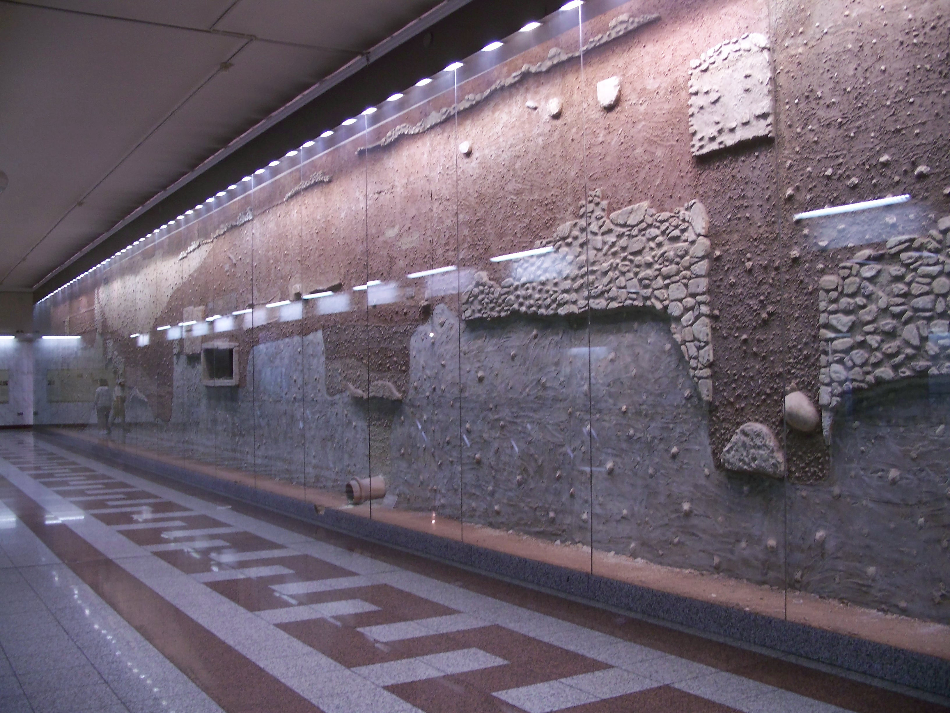 Stratigraphy of the antiquities wall of Athens Metro Syntagma station, with the pipe in the center belonging to the Peisistratid aqueduct. The wall is presented inside the Syntagma station of the Athens Metro.